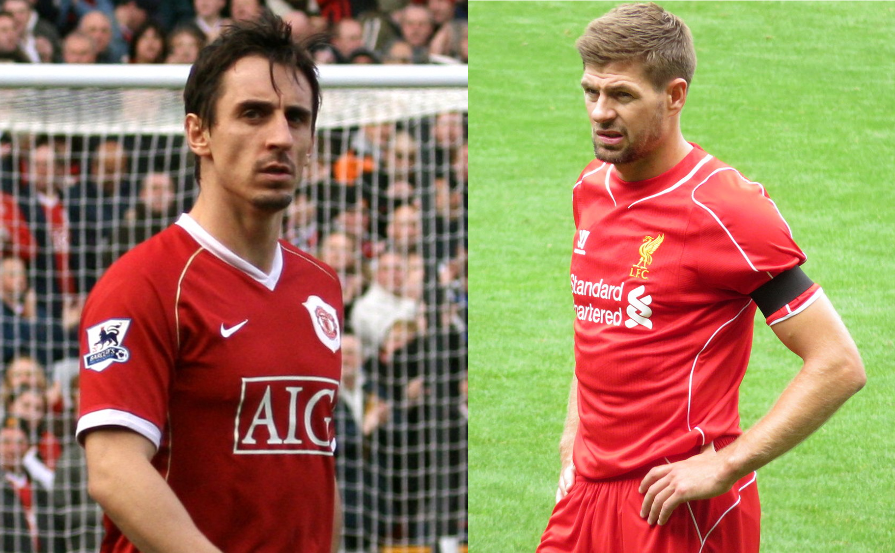 Steven Gerrard and Gary Neville